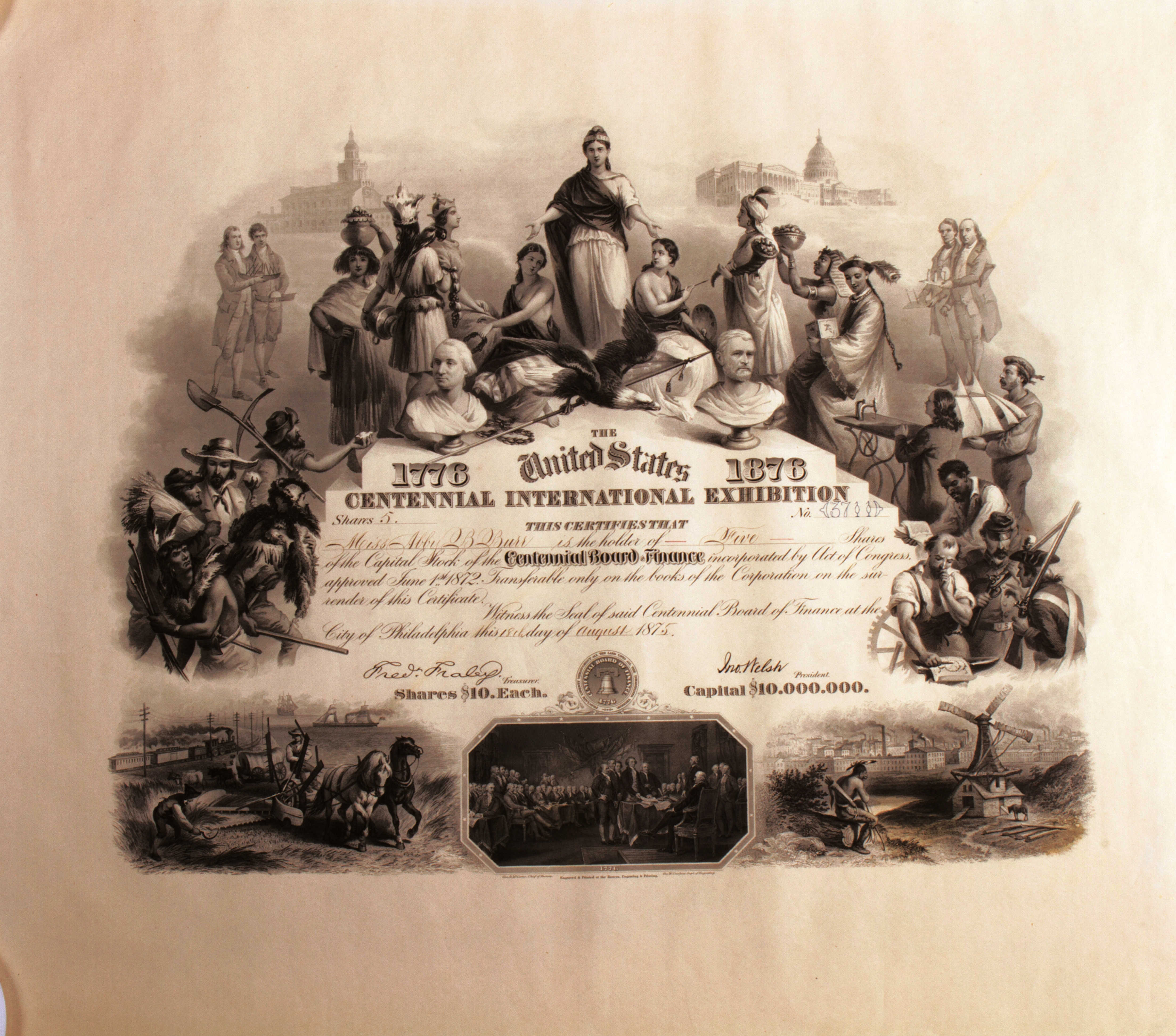 Stock certificate for five shares to finance the Centennial International Exhibition 1876, issued by the Centennial Board of Finance and dated August 18, 1875. The share text is framed by extensive views. They portray the agricultural, industrial, and political development of the US. In addition, people from all continents pay homage to Lady Liberty and present goods they export to the US.